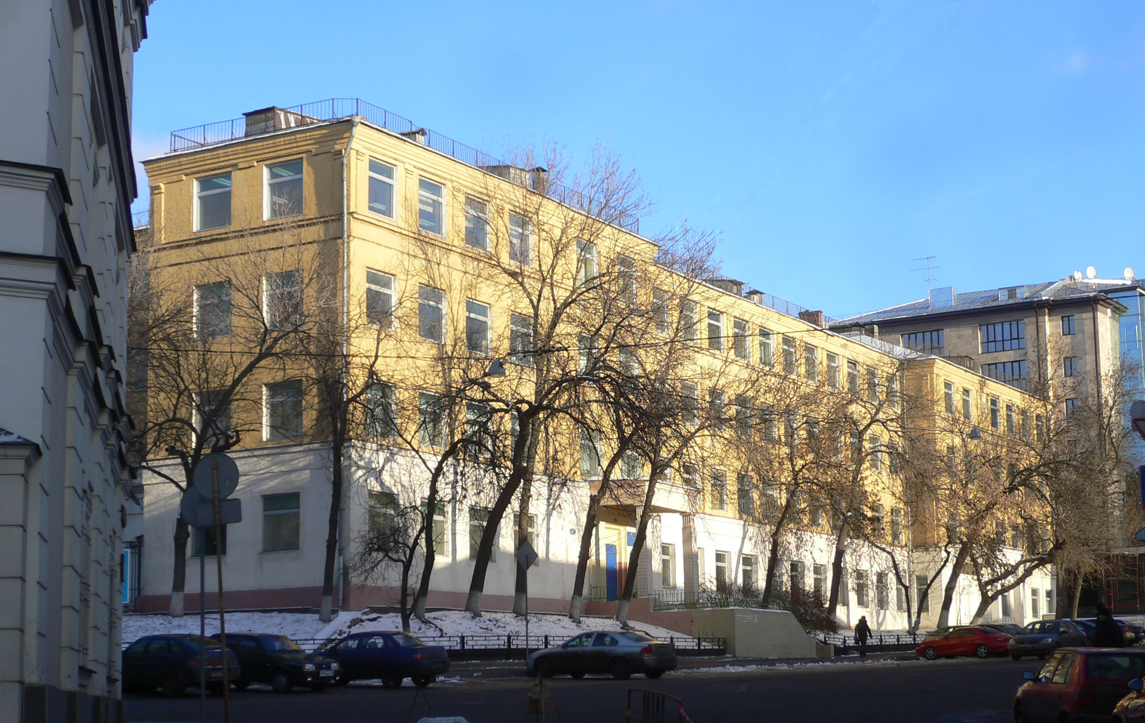 Technical college (originally, a grade school) built in 1930s on the site of former Khitrov market in Moscow. Demolition began December 30, 2009 [2].